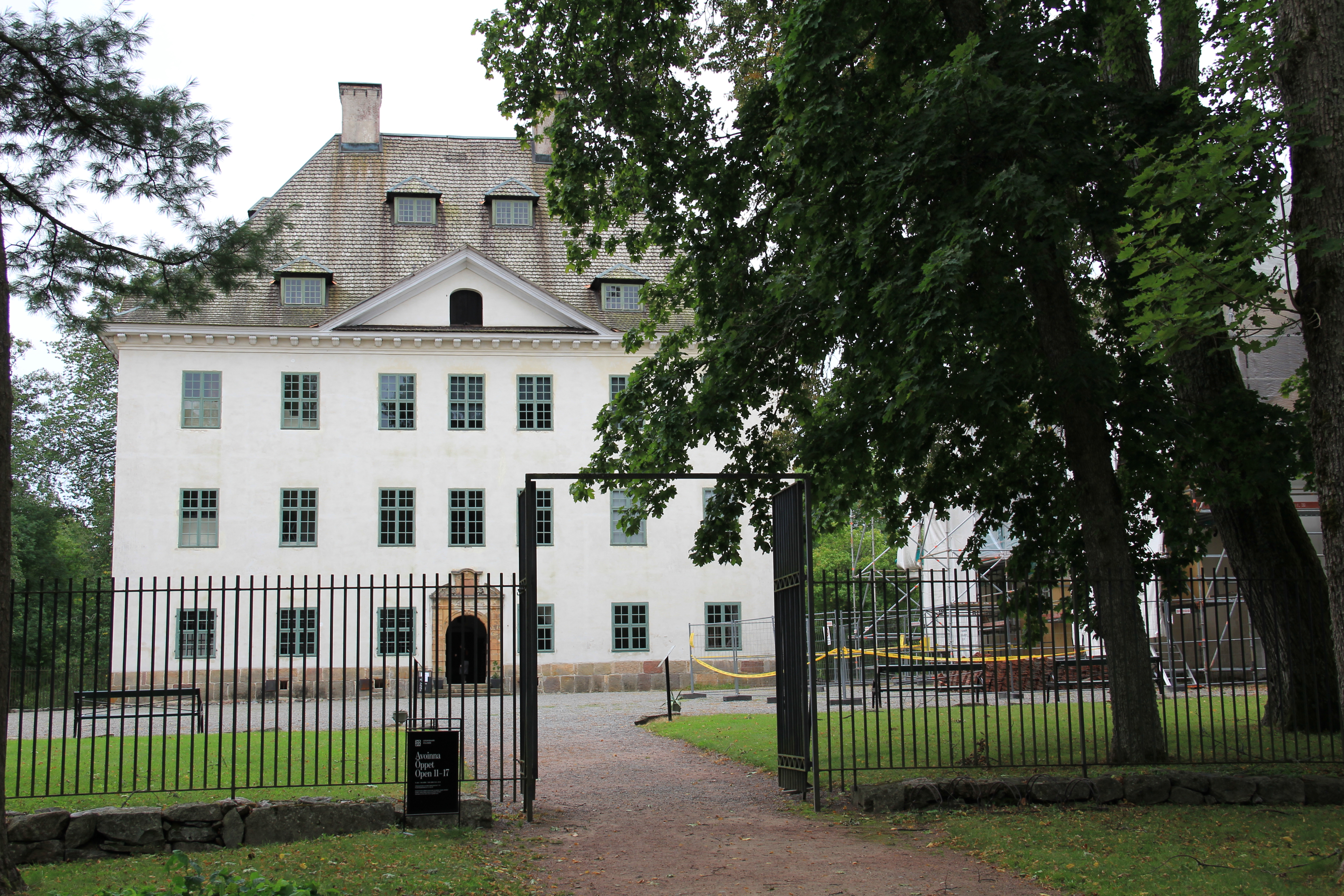 Louhisaari manor, Askainen, Masku, Finland. - Main building and cour d'honneur seen from northeast.